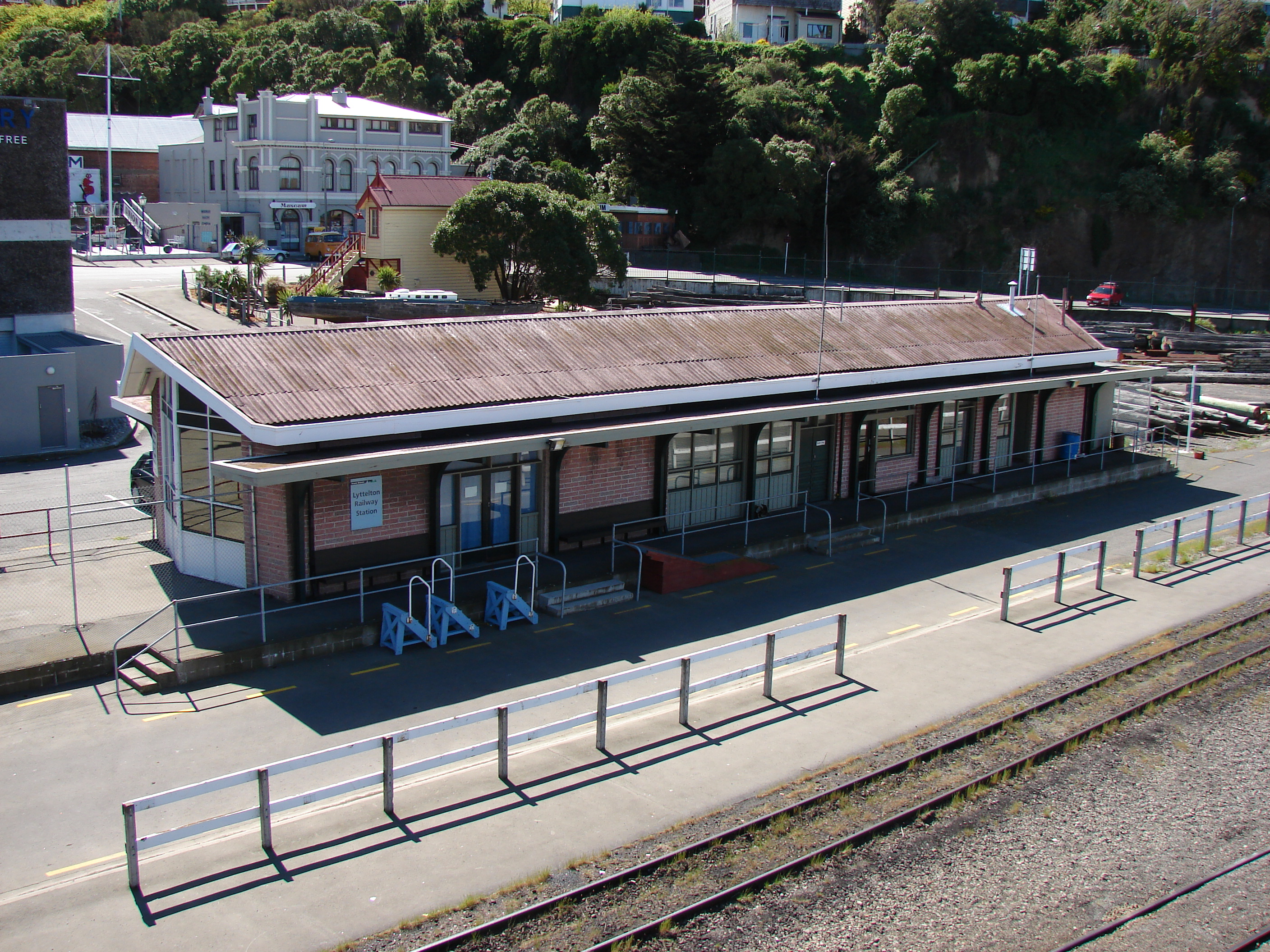 Lyttelton railway station from above. Photographed by Matthew25187 on 2007-10-07.